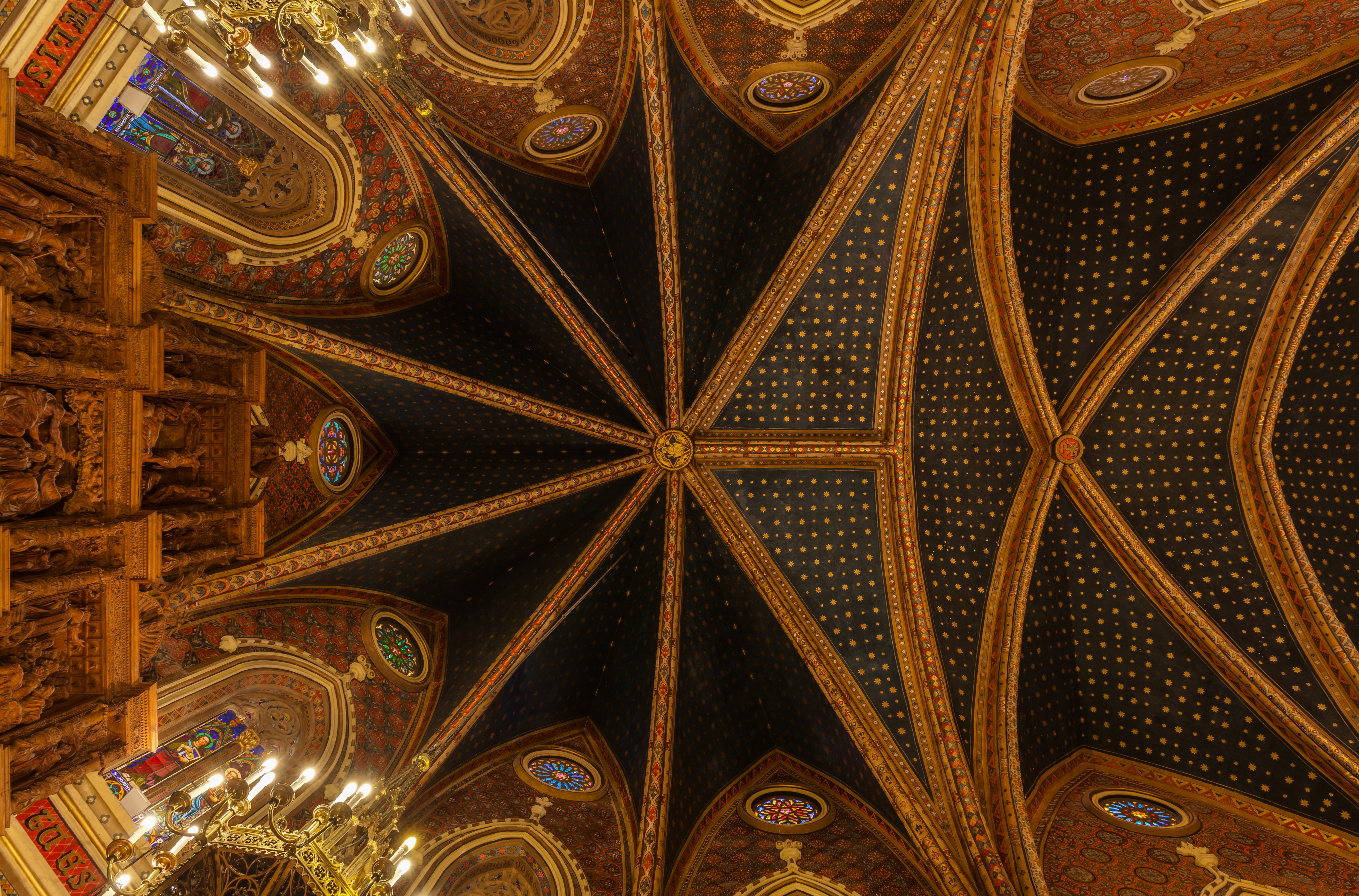 Church of St Peter, Teruel, Spain